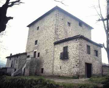 Zumeltzegi Tower (Oñati), in 1988